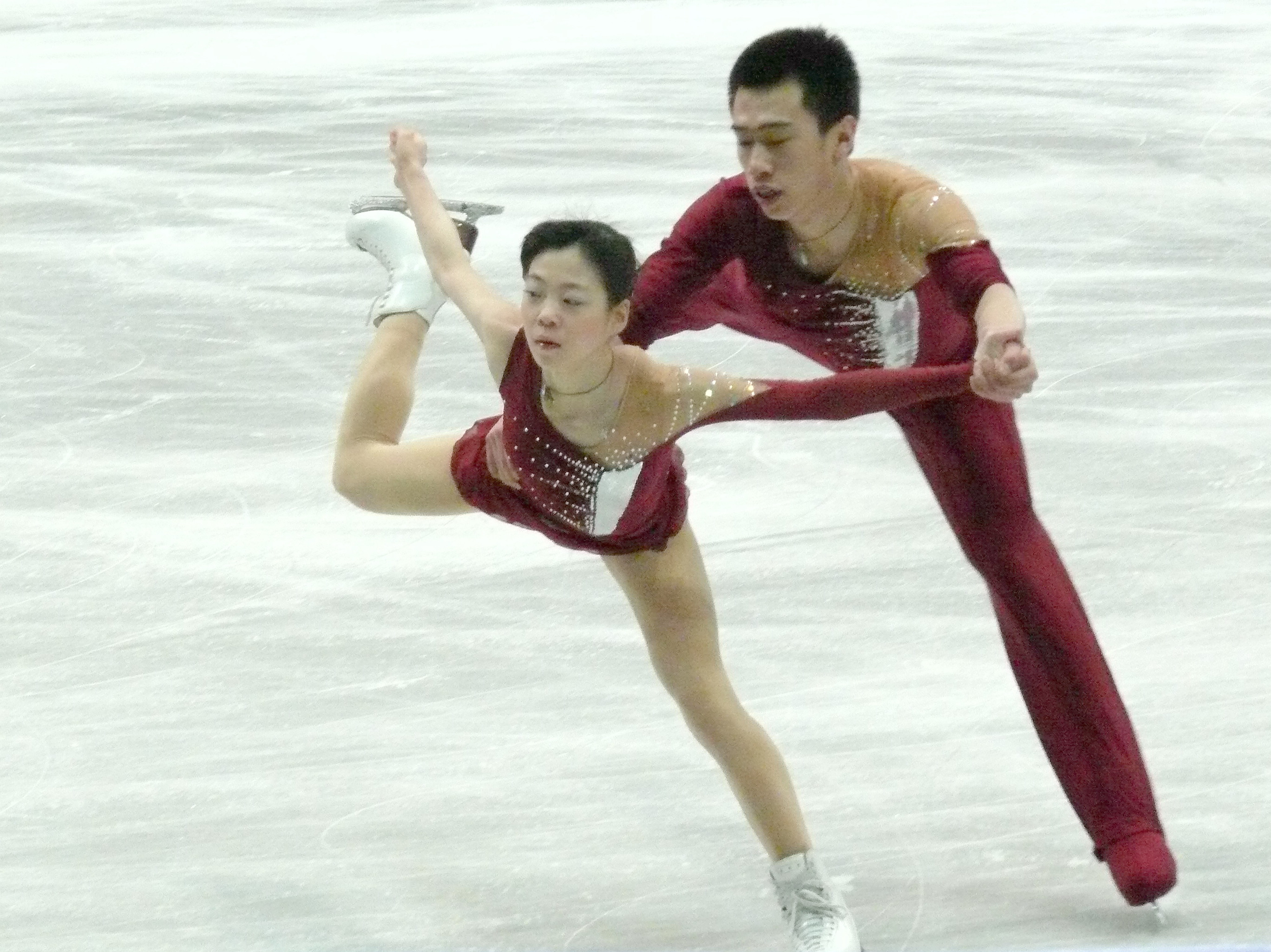 Huibo Dong and Yiming Wu (CHN) at their free program at the World Championships in Figure Skating 2008 in Göteborg (SWE)